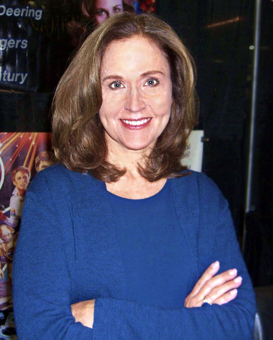 Actor Erin Gray at the Big Apple Convention in Manhattan. Photographed by Luigi Novi. This photo may only be used if the photographer is properly credited. (See Licensing information below.)